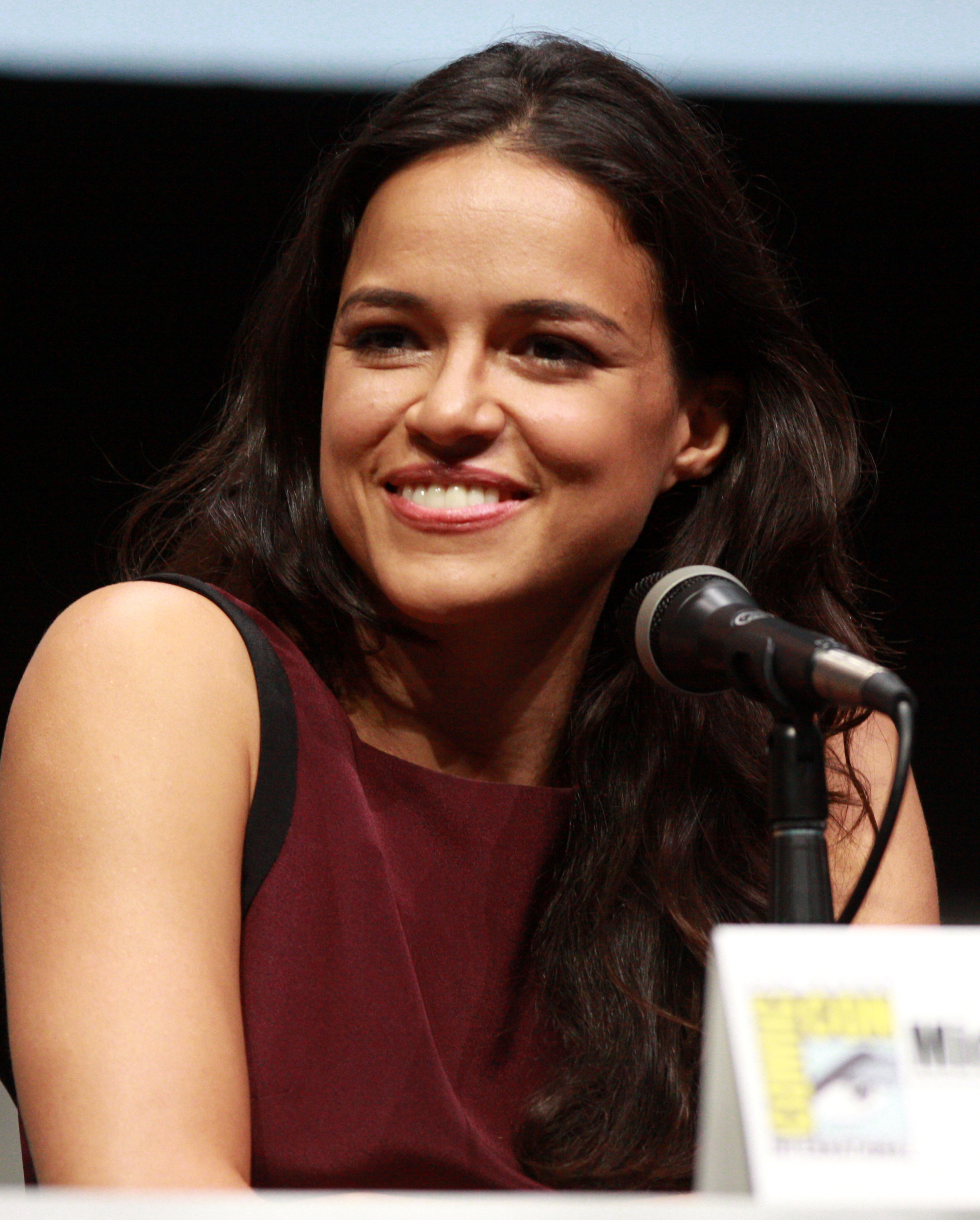 Michelle Rodriguez at the 2013 San Diego Comic Con International in San Diego, California.